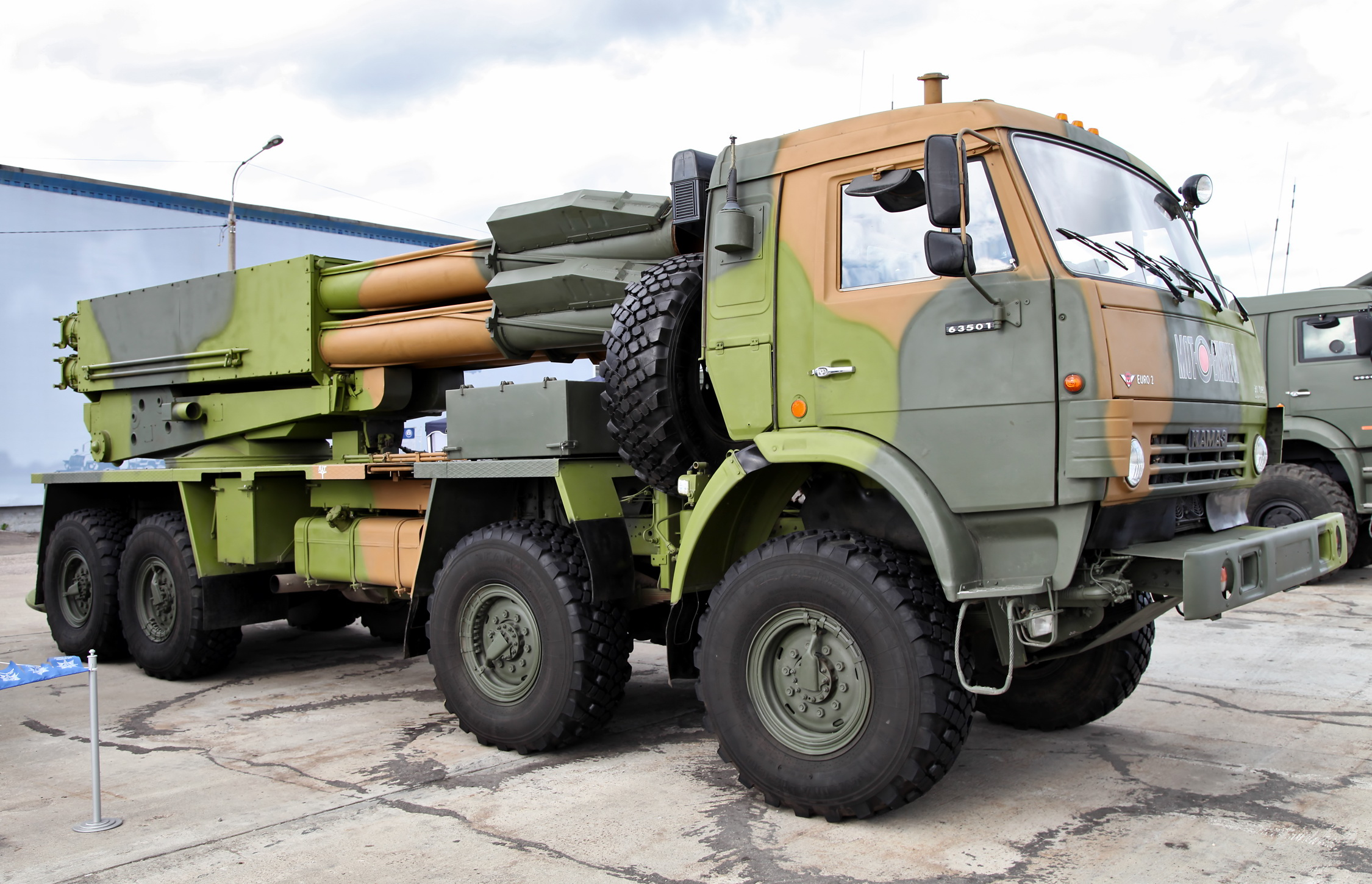 Combat vehicle 9A52-4 Smerch MLRS (Engineering technologies 2012 - Static displays)